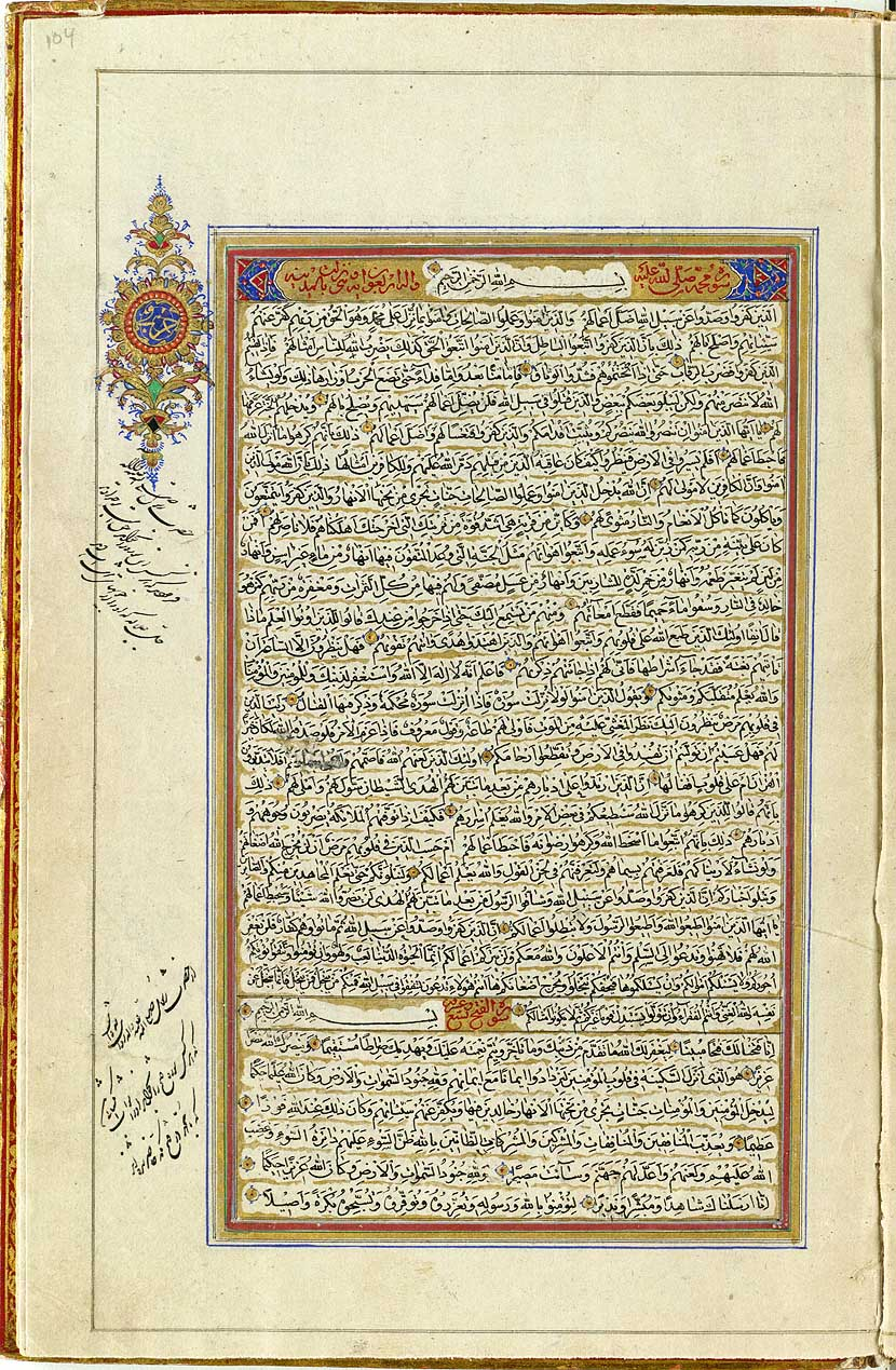 Scan of a Qur'an from the year 1874